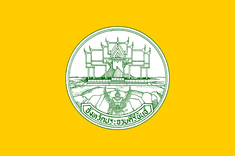 Flag of Prachuap Khiri Khan Province